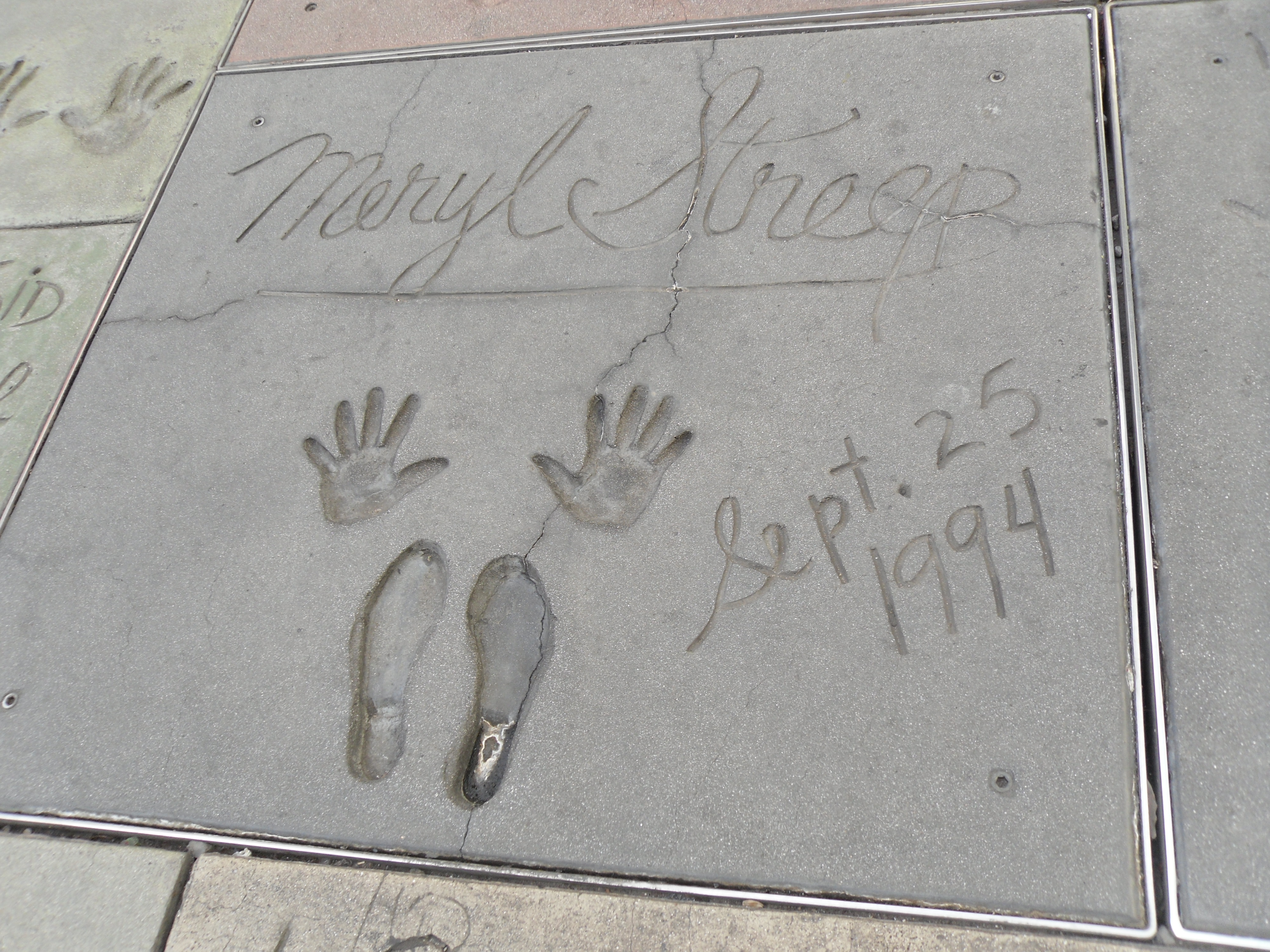 Meryl Streep's signature at Grauman's Chinese Theatre